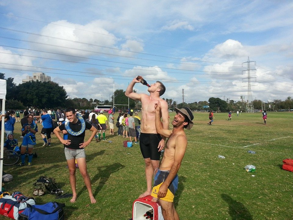 Ritual